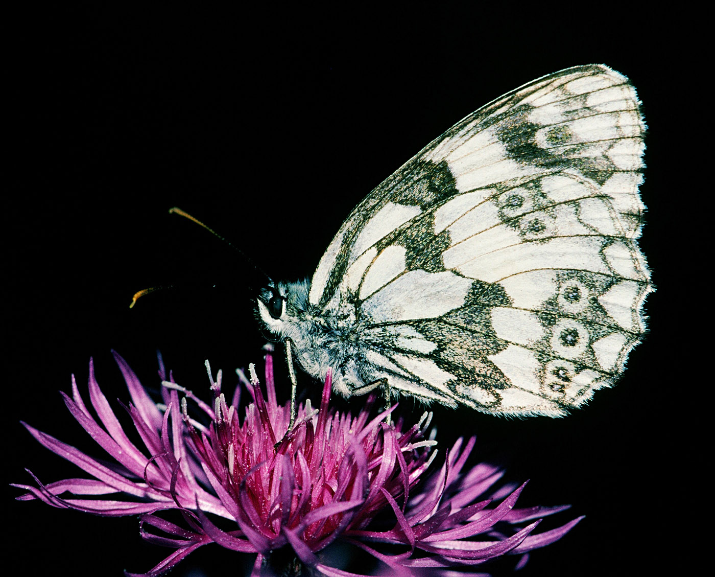 Melanargia galathea, male, in Dresden-Heller, Germany